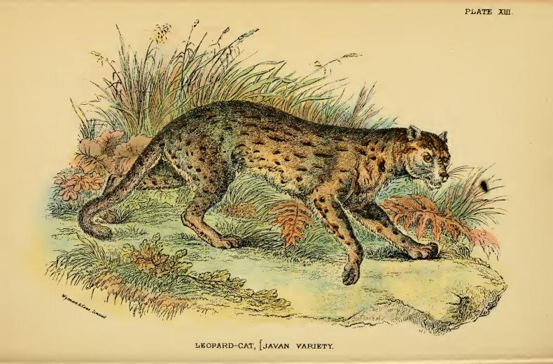 Leopard Cat / Felis bengalensis. Now Prionailurus javanensis